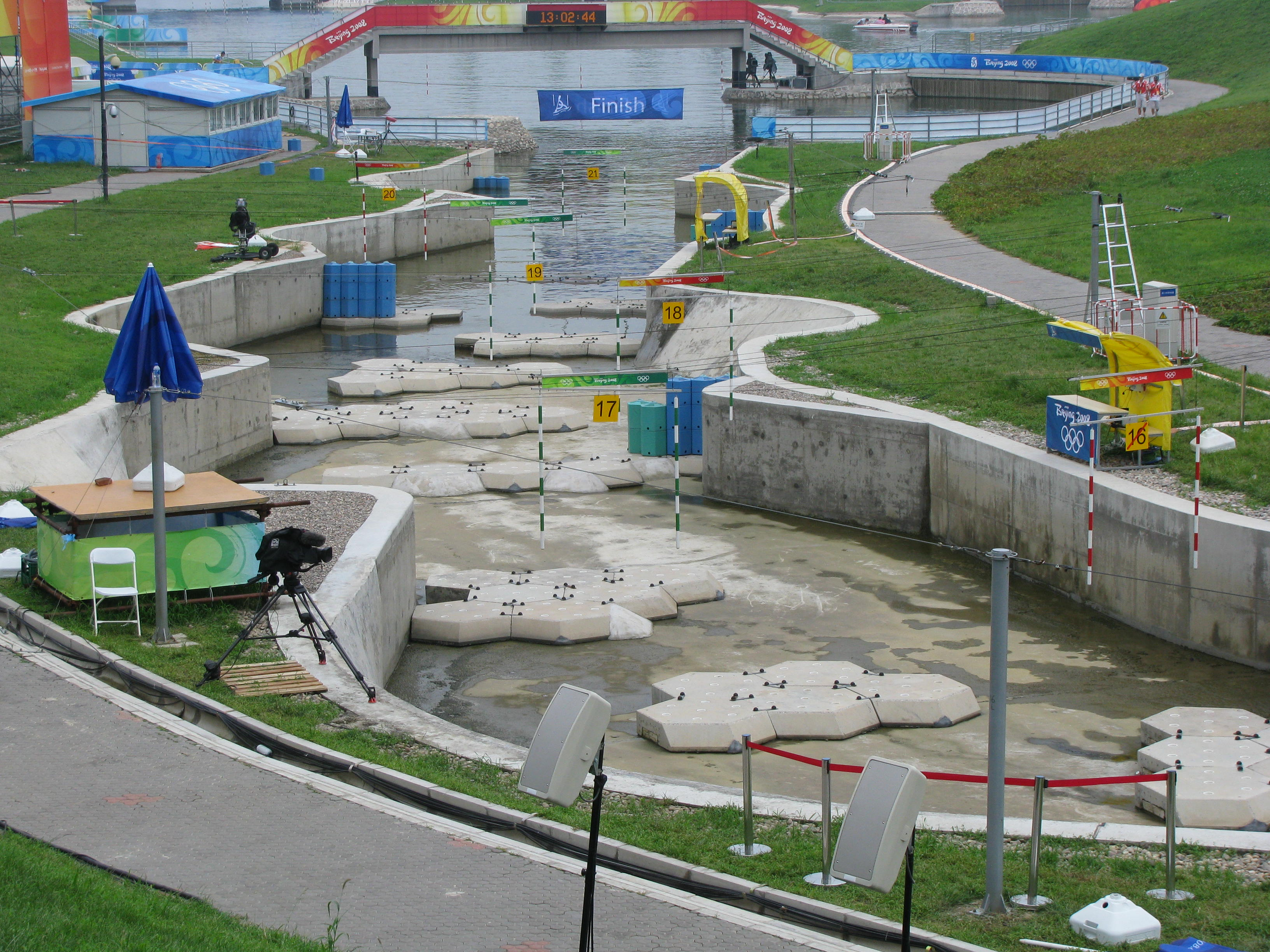 Gates #16 through #21 with no water, Shunyi Slalom Course, 2008 Olympic Games, Beijing, China.